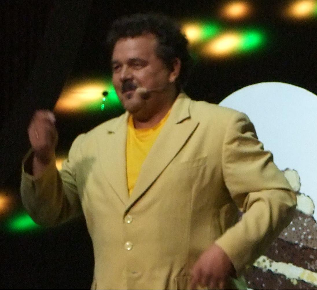 Estonian conductor, comic and politician Tarmo Leinatamm performing in Eurovision Song Contest 2008 with Kreisiraadio - Leto svet